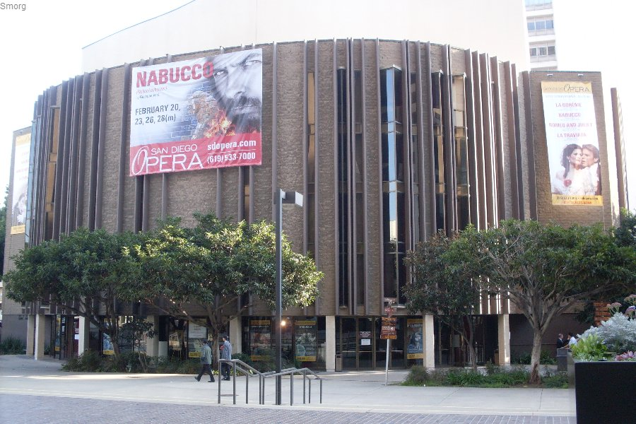 San Diego Civic Theater in downtown San Diego is the home of the San Diego Opera.